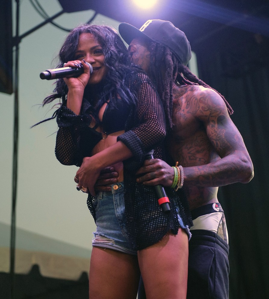 Lil Wayne et Christina Milian, Billboard Hot 100 Music Festival. New York